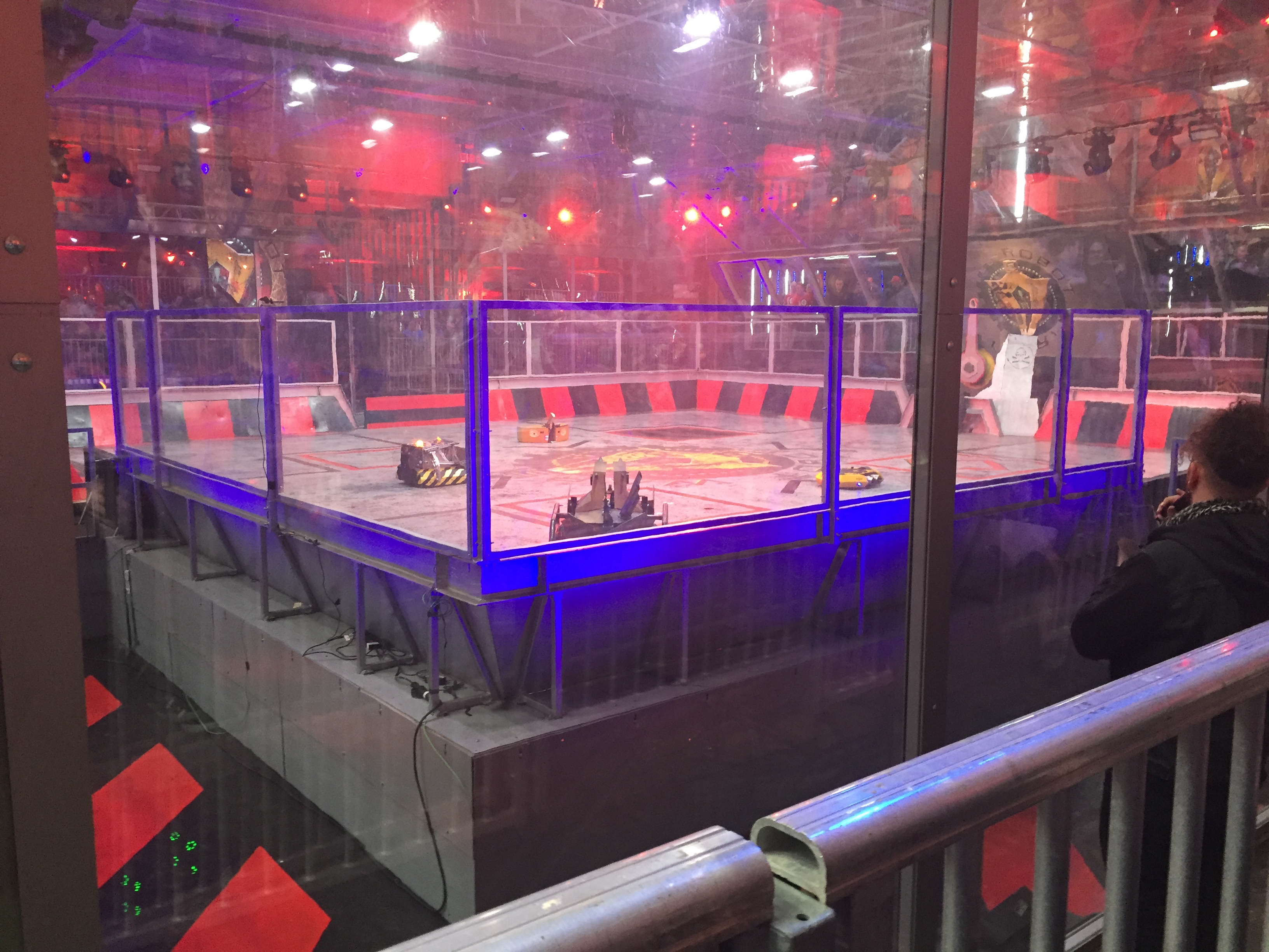 Photo of the arena at the filming of Robot Wars 2017